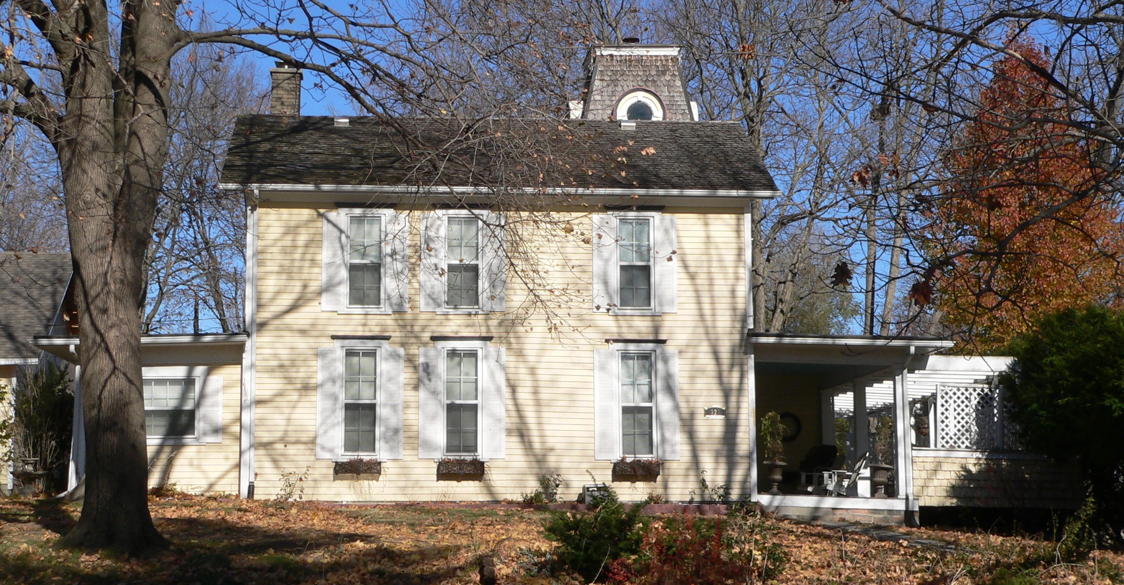 William P. Hepburn House, located at 321 W. Lincoln Street in Clarinda, Iowa; seen from the south.